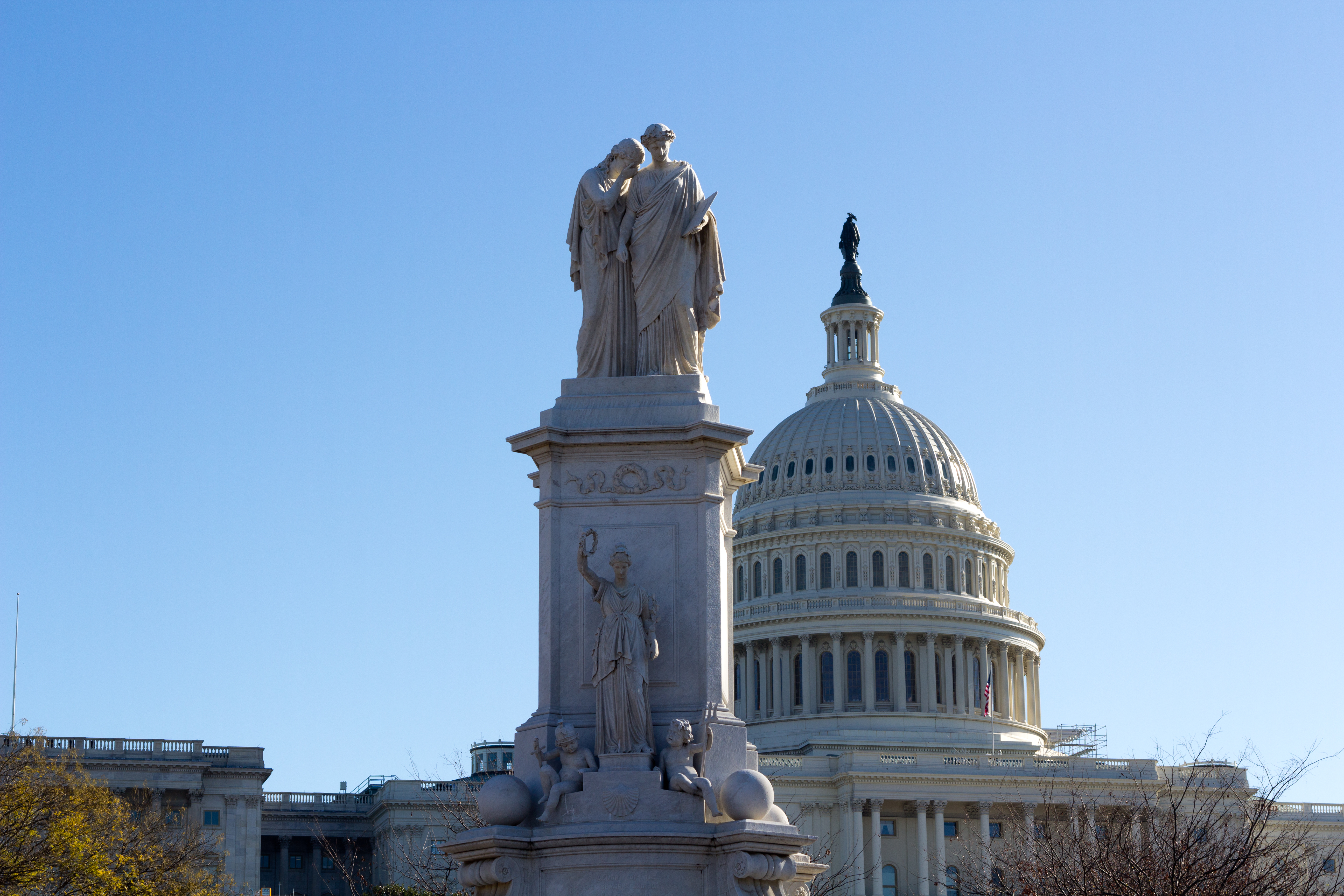 At the top of the monument, facing west, stand two classically robed female figures. Grief holds her covered face against the shoulder of History and weeps in mourning.